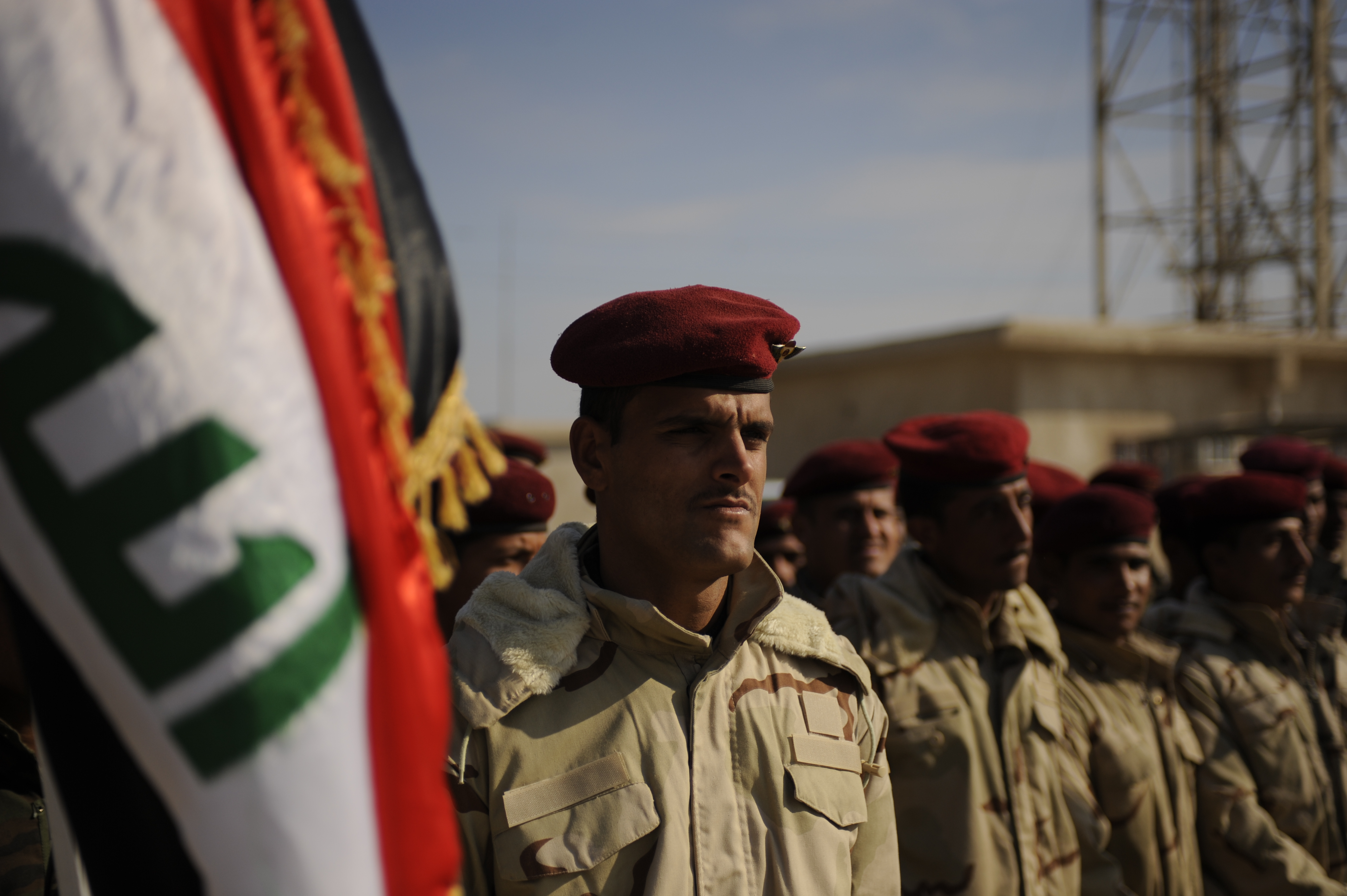 Soldiers from the Iraqi army's 8th Division gather together Jan. 12, 2009, for Lt. Gen Uthman Farhood Az-Ghanami's promotion at Camp Diwaniyah, Iraq. Uthman is the commander of the 8th Division. VIRIN: 090112-F-5751H-202